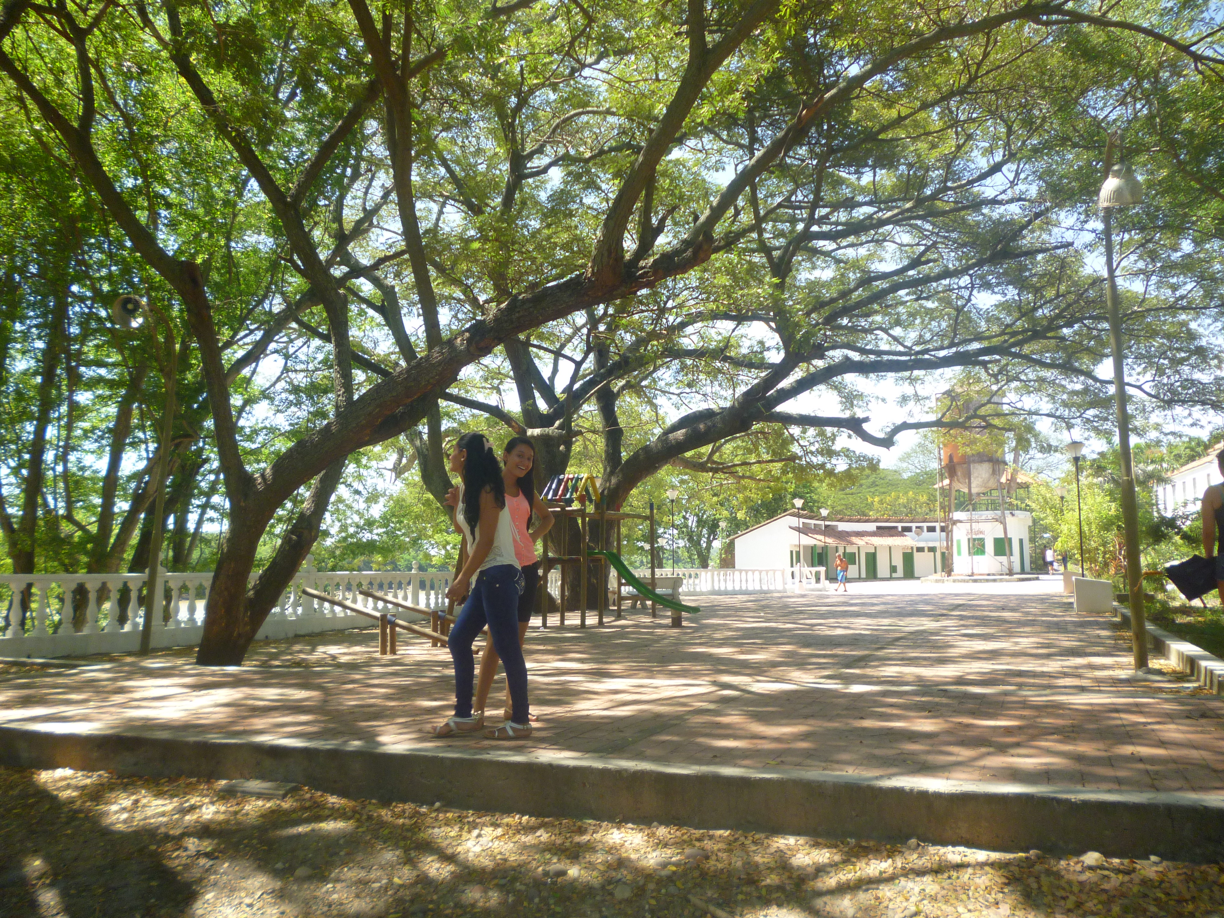 Centro Histórico de la Ciudad de Ambalema